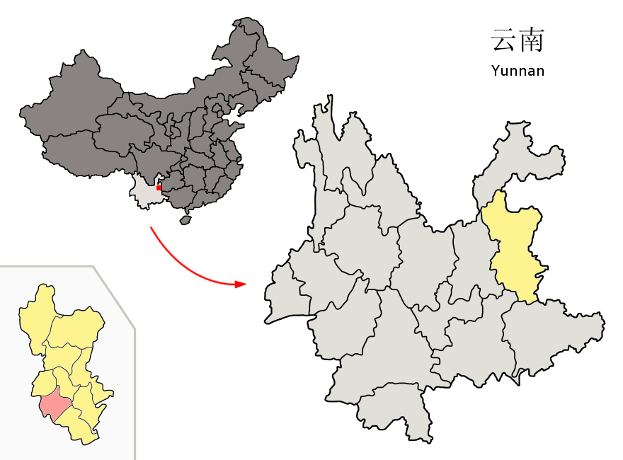 Location of Luliang County (pink) and Qujing Prefecture (yellow) within Yunnan province of China Map drawn in september 2007 using various sources, mainly : Yunnan province administrative regions GIS data: 1:1M, County level, 1990 Yunnan Counties map from